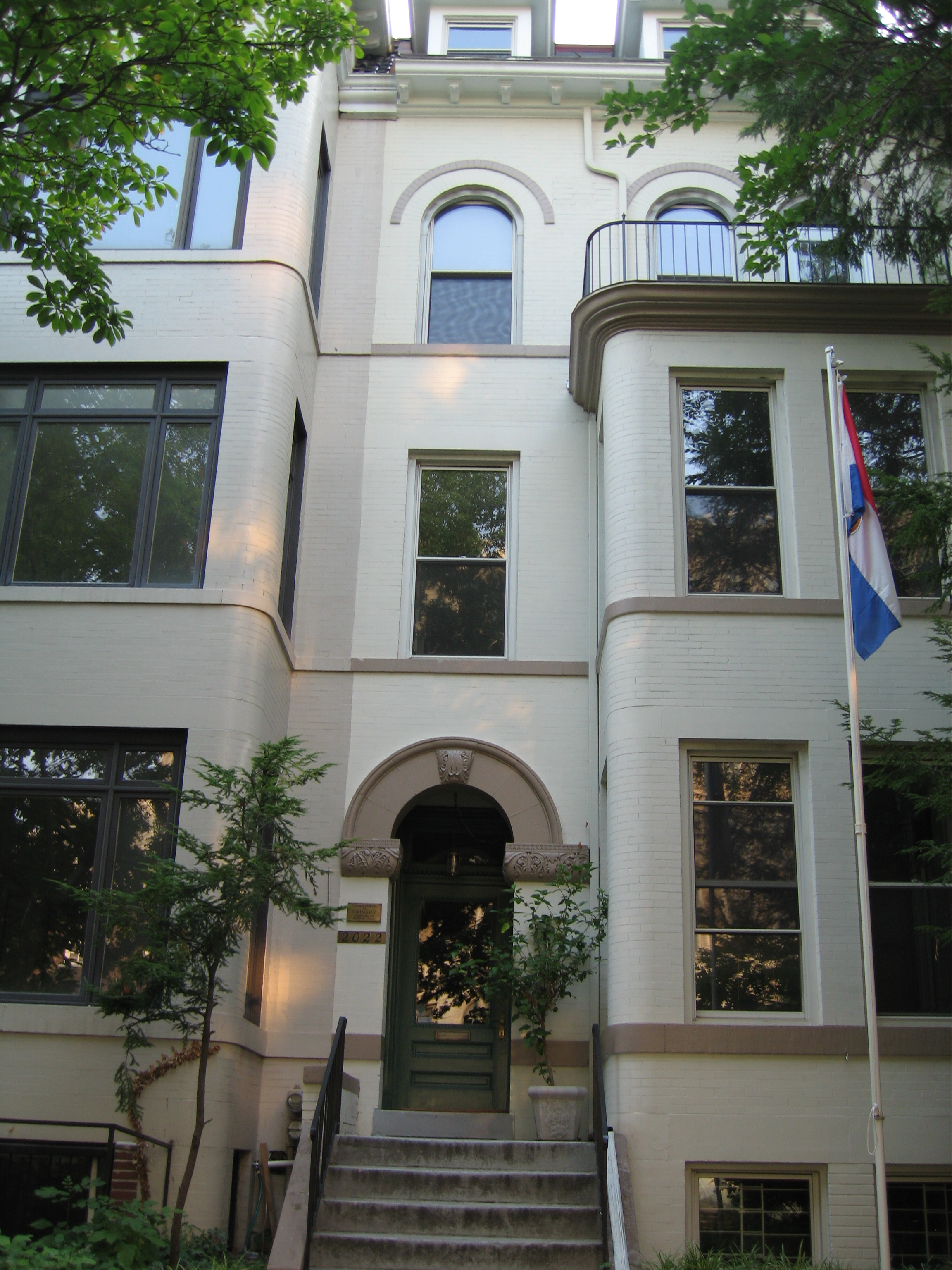 The embassy of Paraguay to the United States in Washington, D.C..